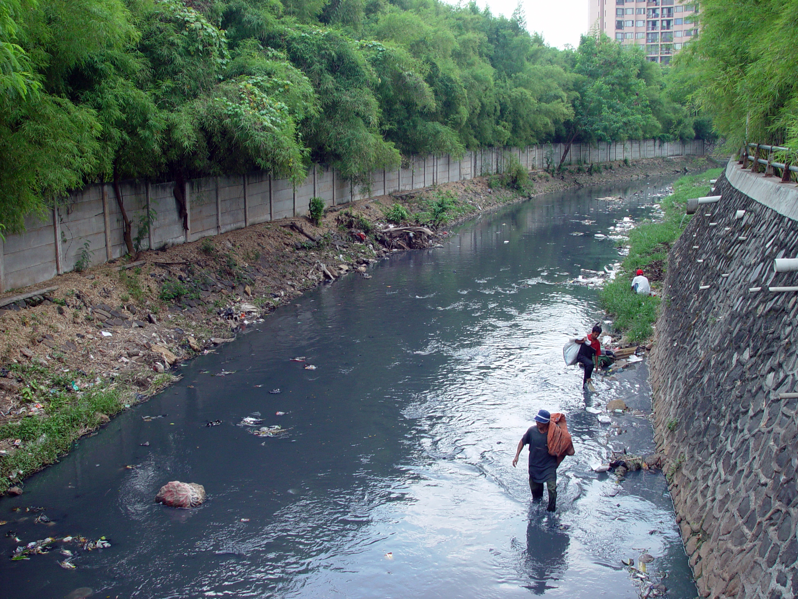 Slum life, Jakarta Indonesia.